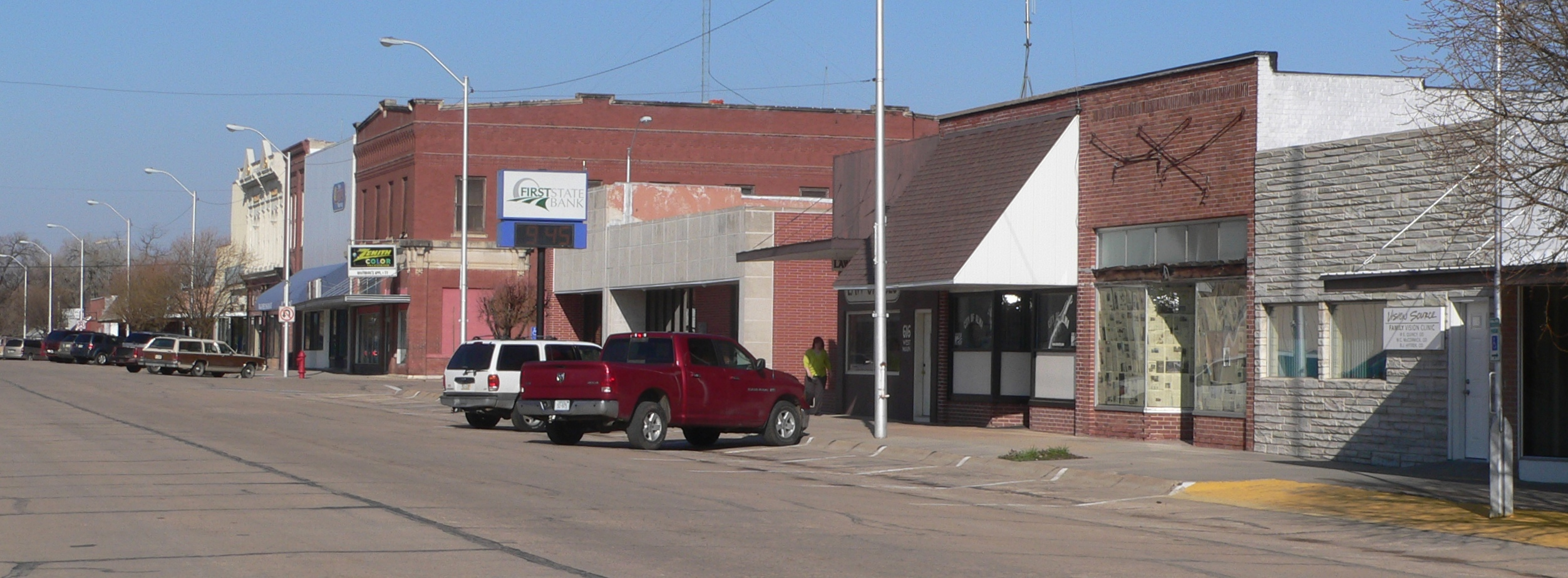 North side of Main Street in Alma, Nebraska. Camera is facing northwest.